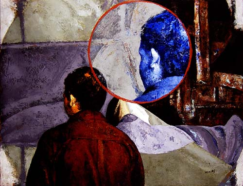 "NicolasDelaHoz_obra01.jpg" is the photograph of the paint "Fourth Circle, made with oil and acrylic on canvas. This image was provided directly by the artist. This image, and other 19, can be seen in the address